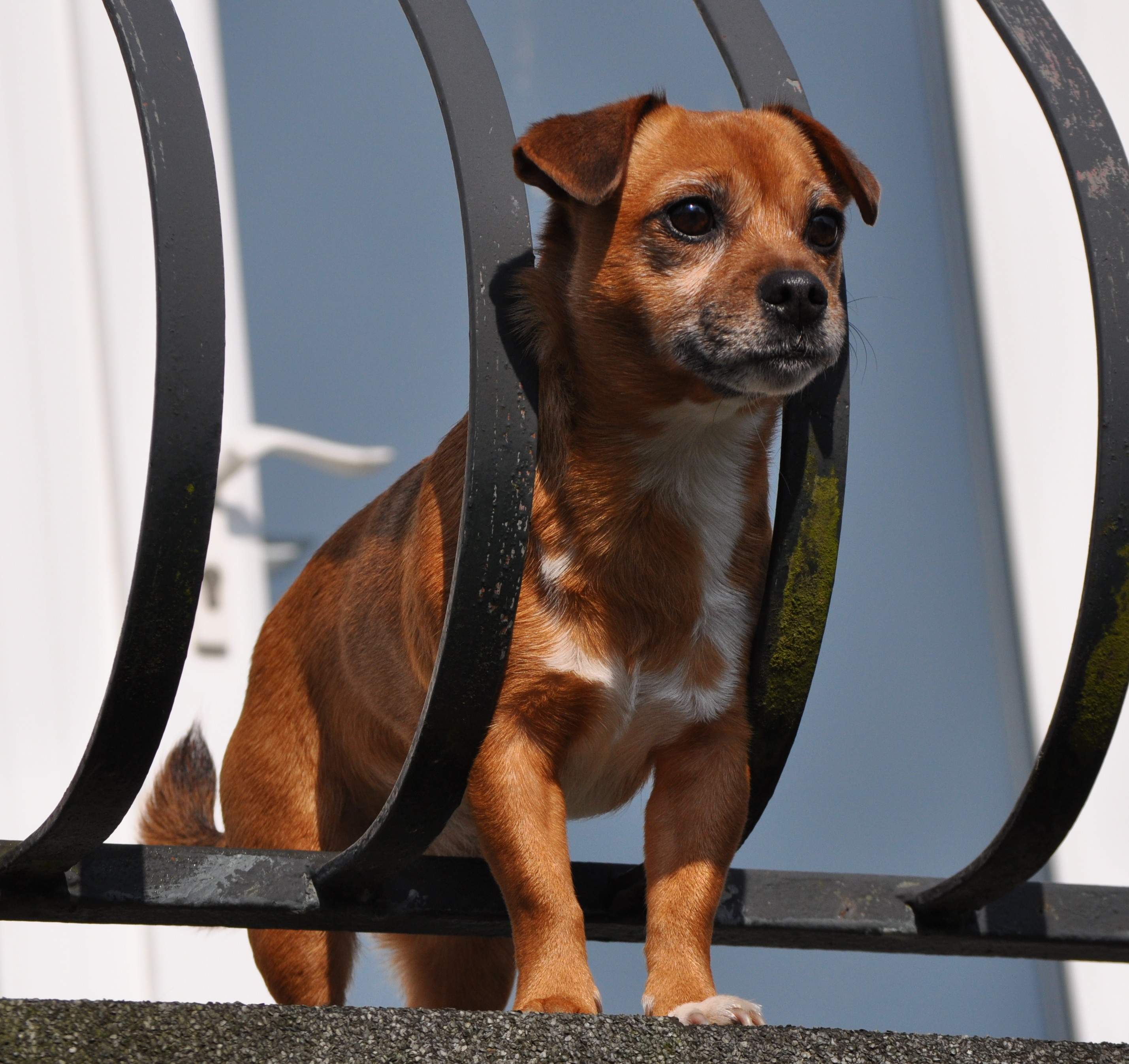 Pug-Russell on guard duty!